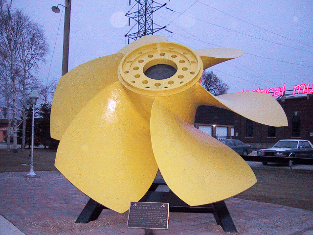 A propeller runner of a hydroelectric turbine A fixed-blade turbine runner 15 feet 10 inches (4826 mm) diameter rated 28000 HP (20880 kW). In 59 years of service this runner produced 7.5 terawatthours of energy. This runner was installed at Manitoba Hydro's Great Falls generating station. This runner is on display at the Manitoba Electrical Museum, Winnipeg. Note the fixed attachment of the roots of the propeller blades to the hub - this angle is not adjustable, unlike a Kaplan turbine.